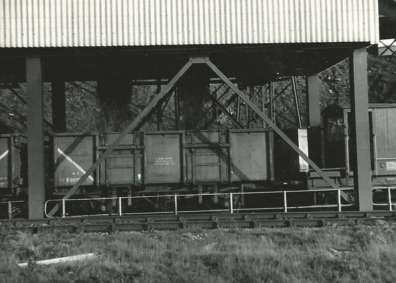 A vacuum-braked 21 ton coal wagon being loaded from a hopper at the then new Blaenant Colliery bound for Aberthaw Power Station, c.10/65. Scanned photograph taken with a Halina 35X Super camera.